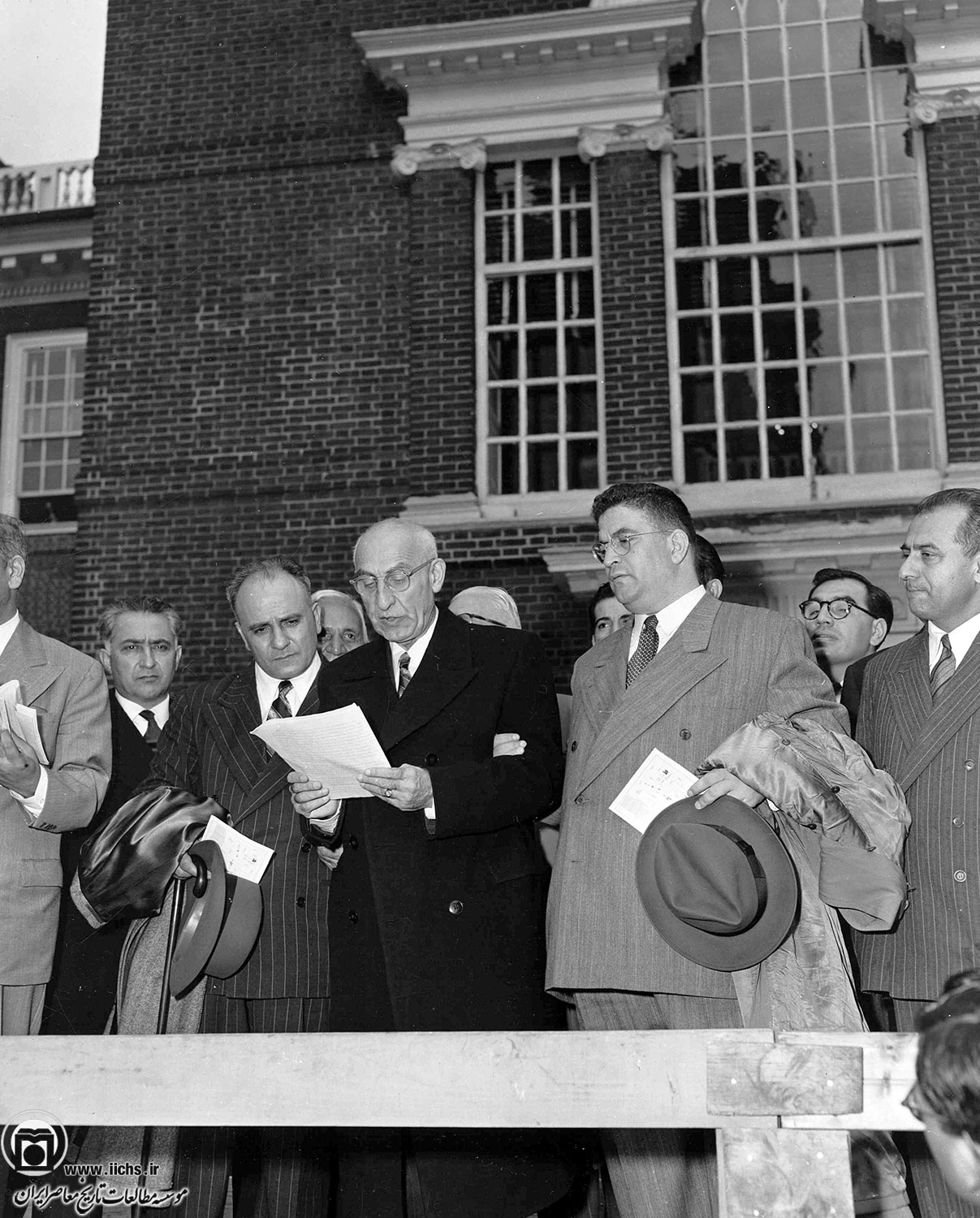 Prime Minister Mossadegh and Mozaffar Baqa'i